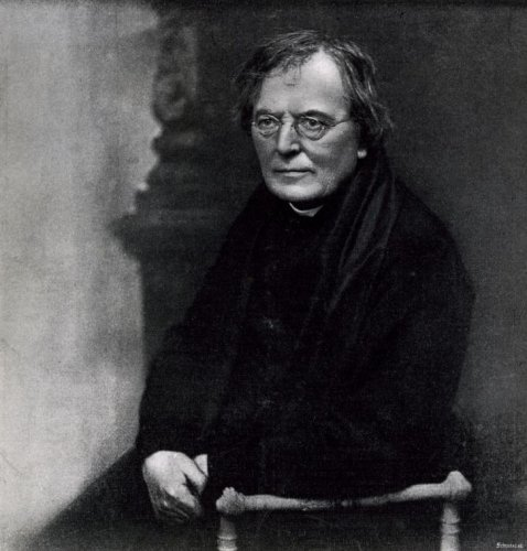 Belgian priest and writer Hugo Verriest (1840-1922)